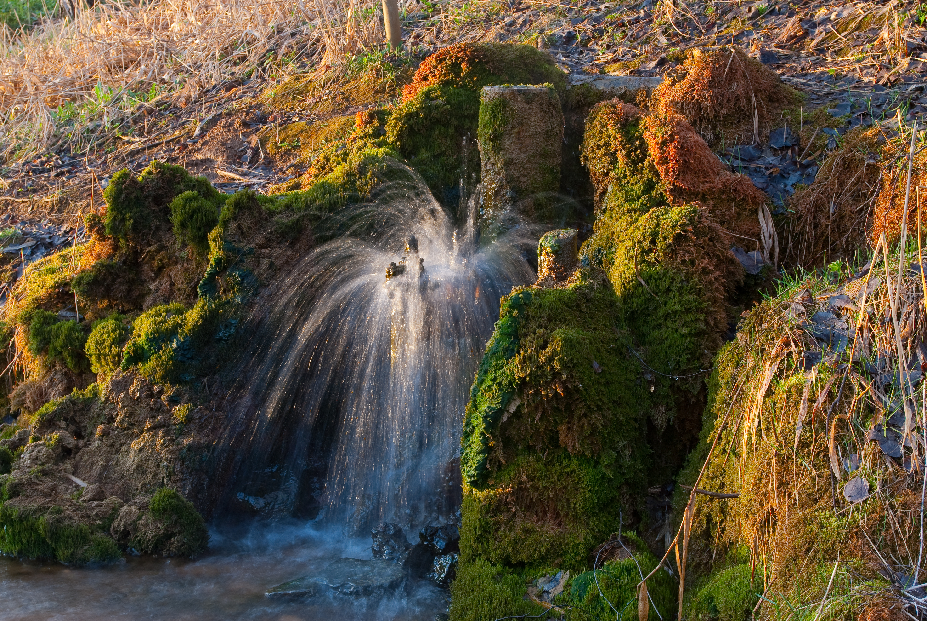 Hydraulic ram near Rõuge, Estonia.